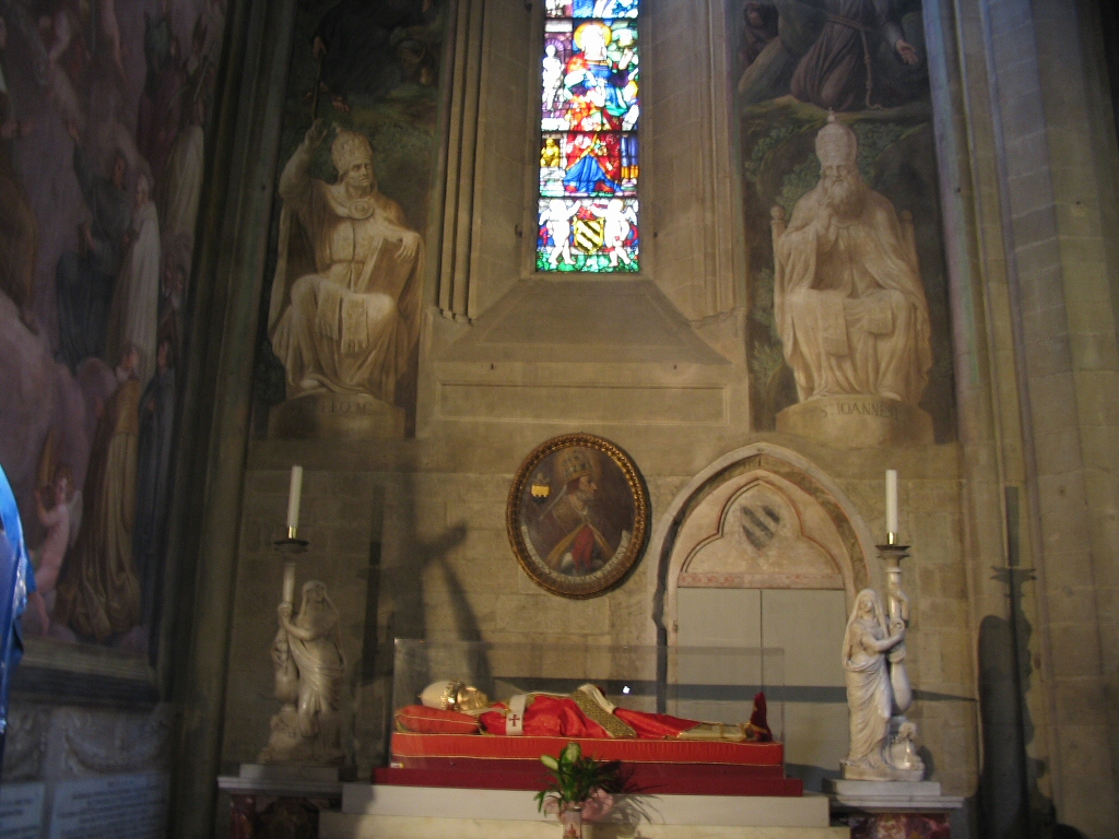 Wrong filename: Saint Silvester Chapel, Cattedrale di San Donato, Arezzo, Italy